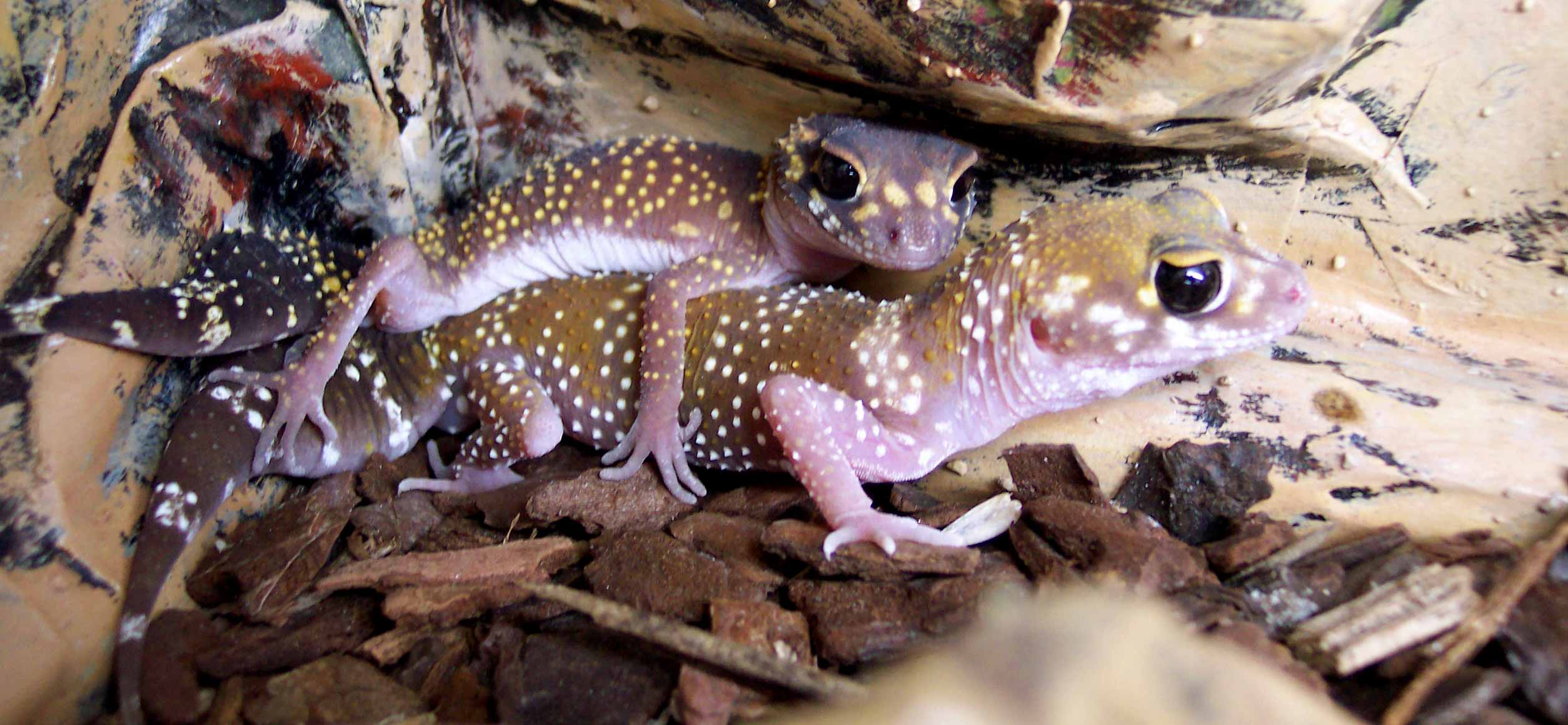 Copulation of geckos Underwoodisaurus milii.